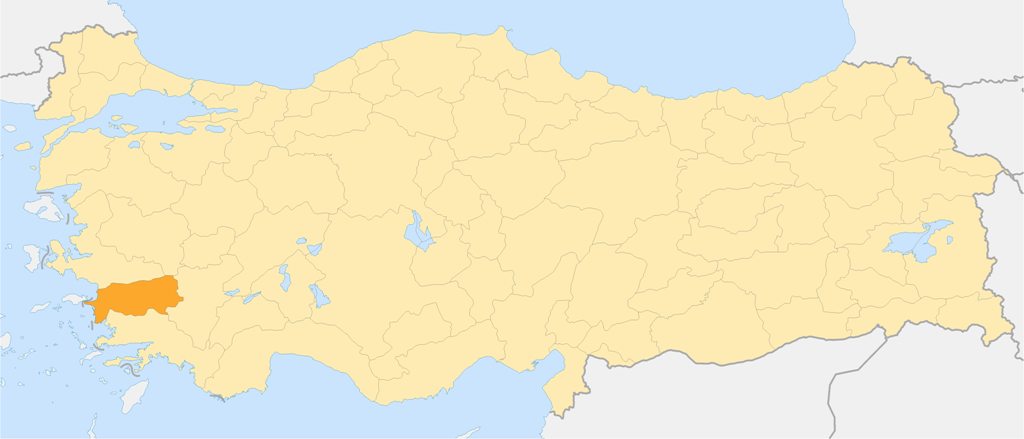 Location map of Aydın Province — in southwestern Anatolia, Turkey